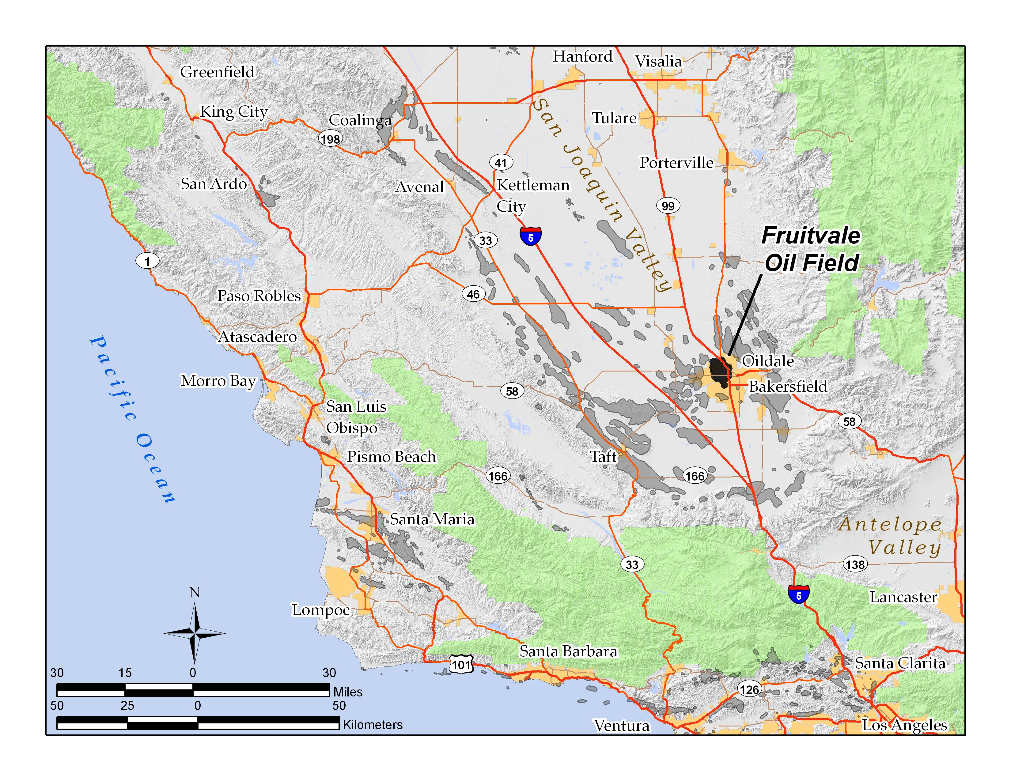 map of location of Fruitvale field; by me, in ArcGIS 9.2; all data is in the public domain: GFDL